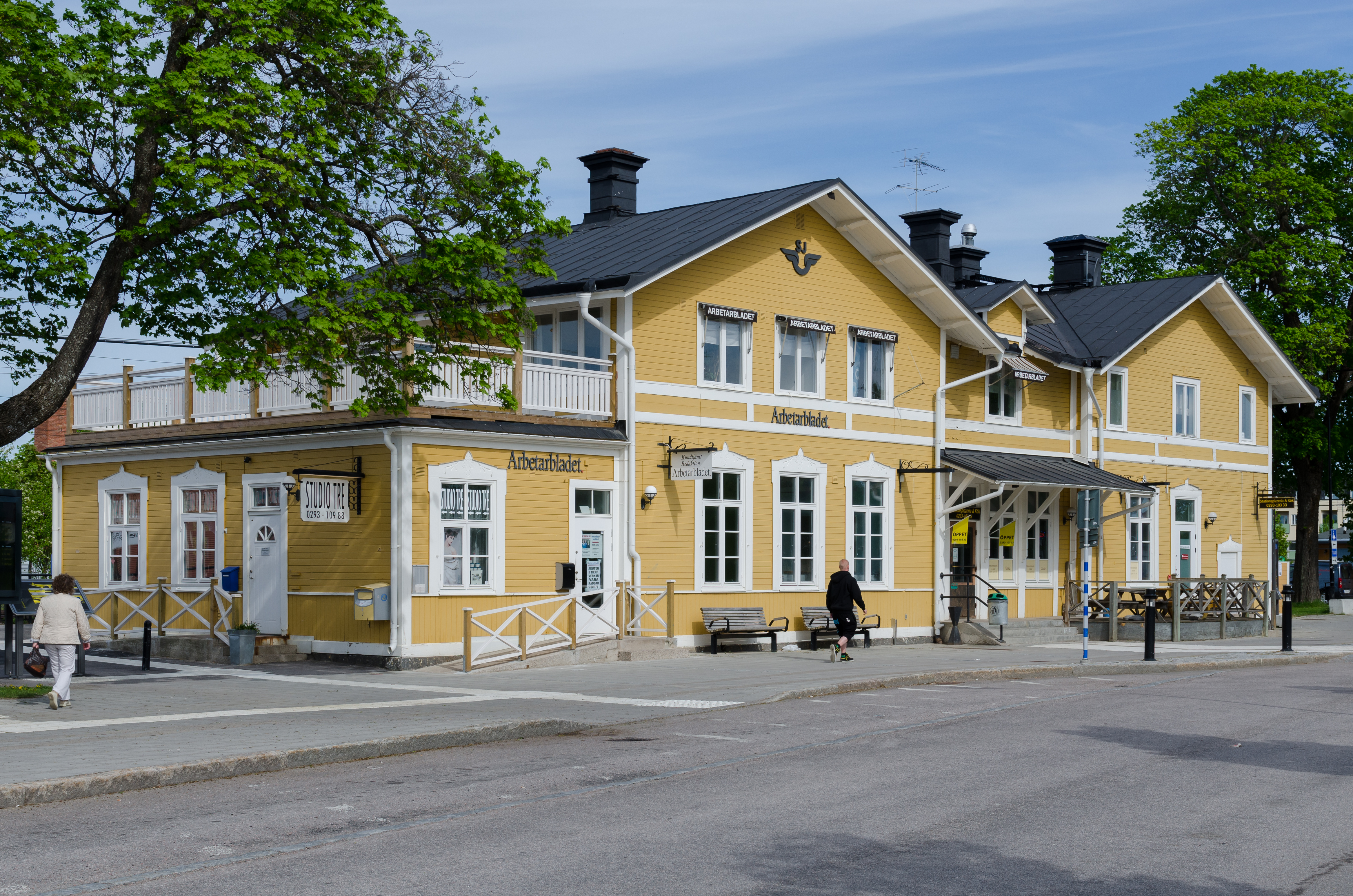 Railway station of Tierp. Built 1874, rebuilt 1905.